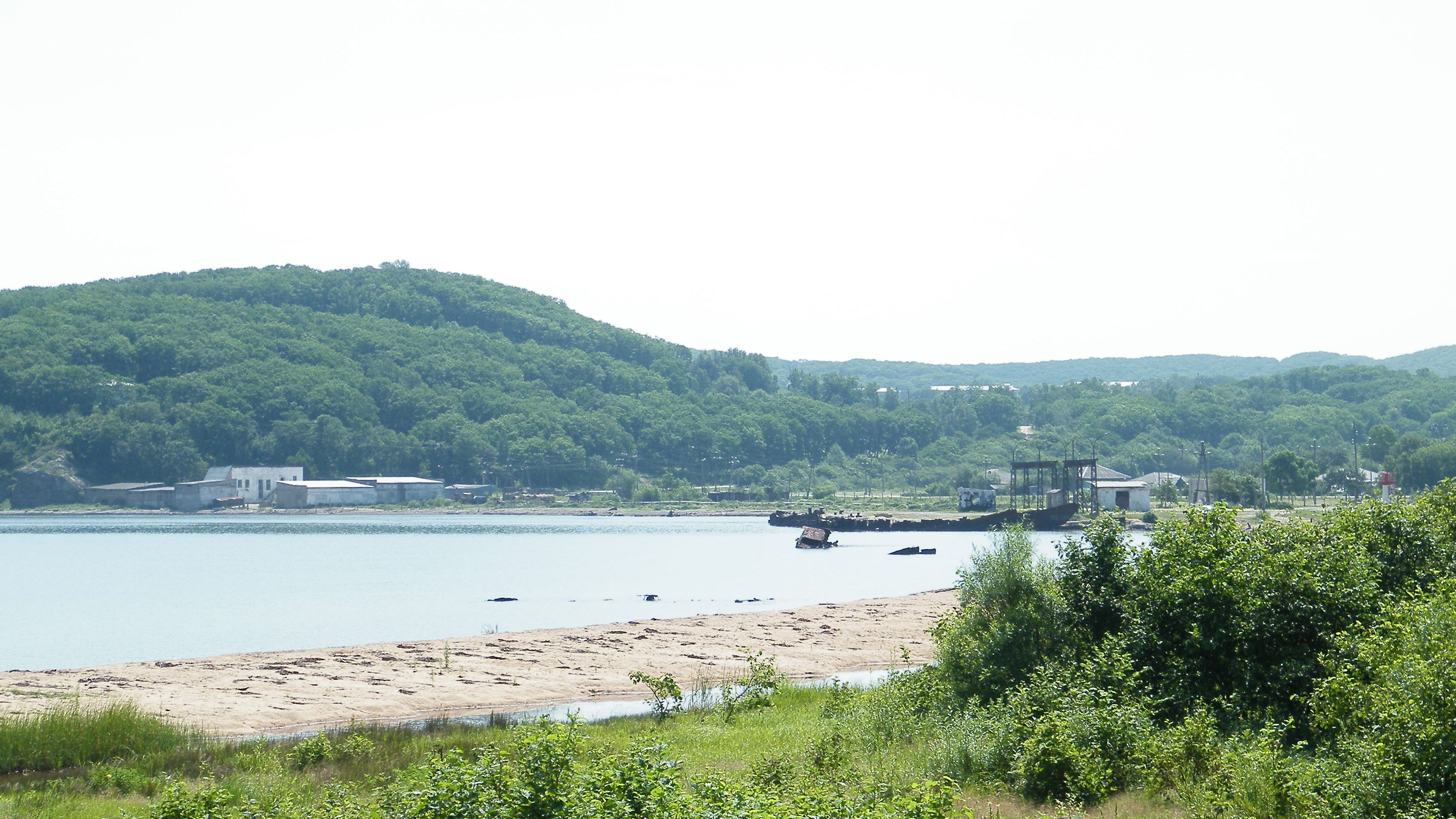 Пос Тимофеевка Ольгинский район бухта Южная